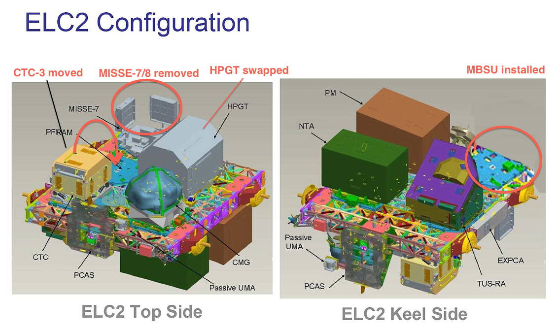 ELC-2 Art Layout